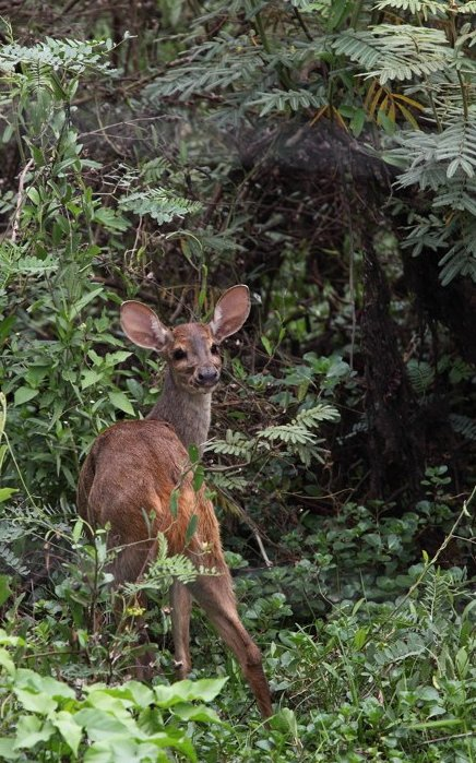 Mazama americana